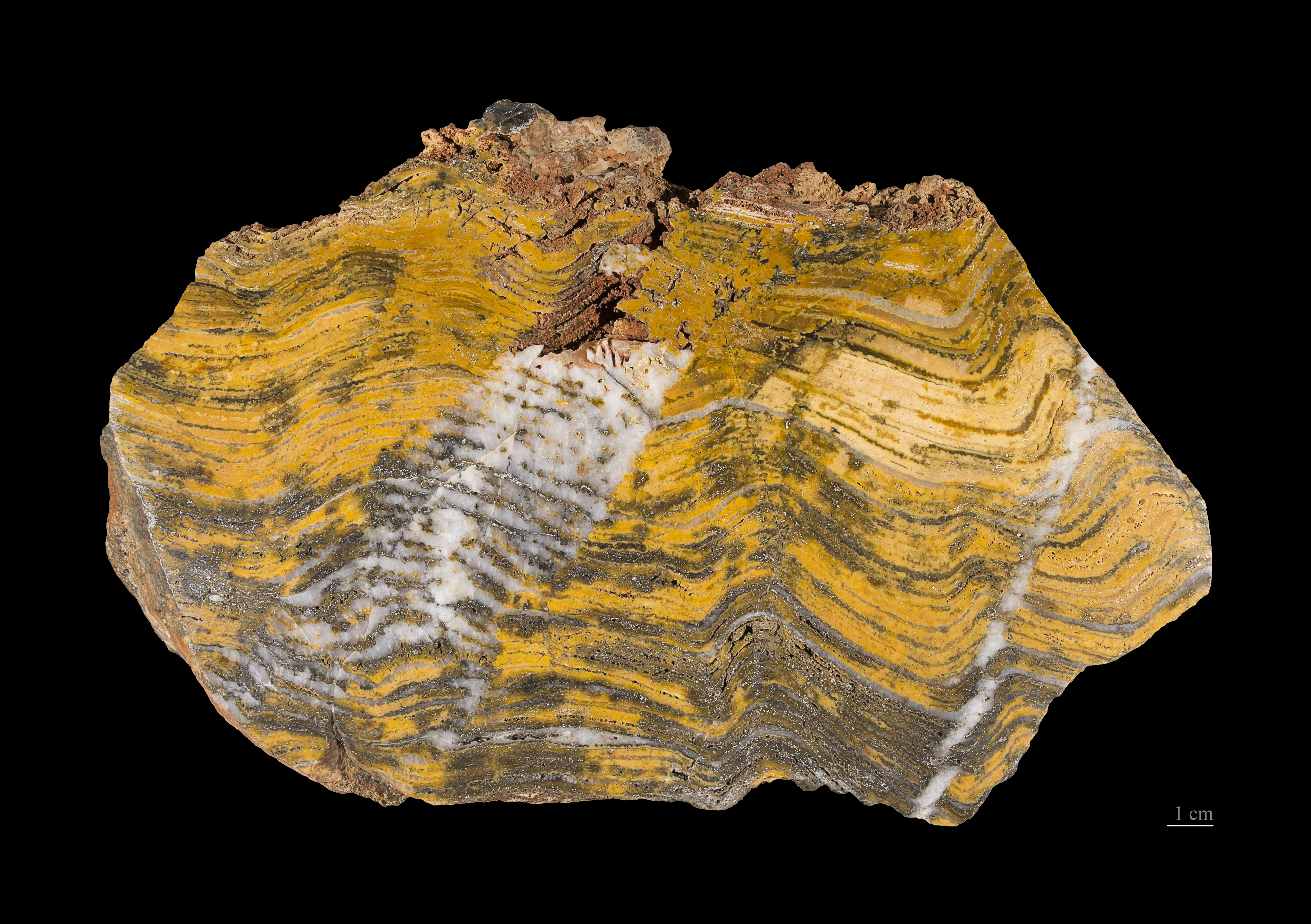 Stromatolite Stromatolites are formed over the years by mats (1-10 mm in thickness) of microorganisms (cynobacteria among others) found in shallow, mainly marine waters. The microorganisms precipitate mineral particles, which makes the mat to thicken, but only the upper part survives. Most stromatolites display characteristically layered structures. Only the layers are visible to the naked eye. Stage : Paleoarchean from -3 600 à -3 200 Ma (million years ago). Locality: Strelley Pool Chert (SPC) (Pilbara Craton) - Western Australia.